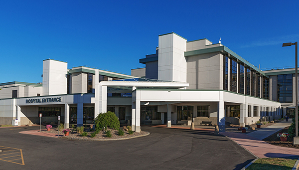 Photograph of Unity Hospital, an affiliate of Rochester Regional Health